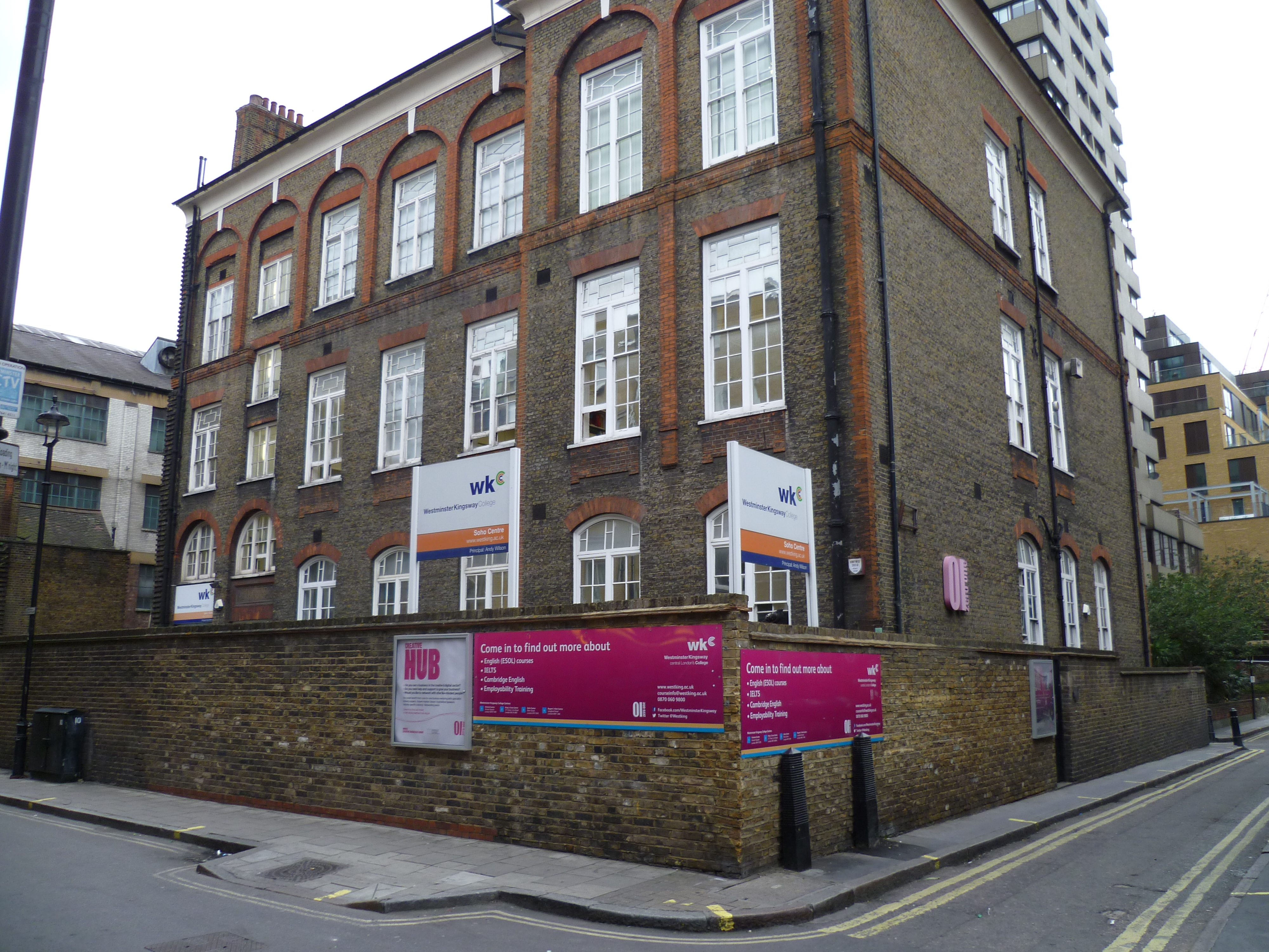 Hopkins Street, Soho